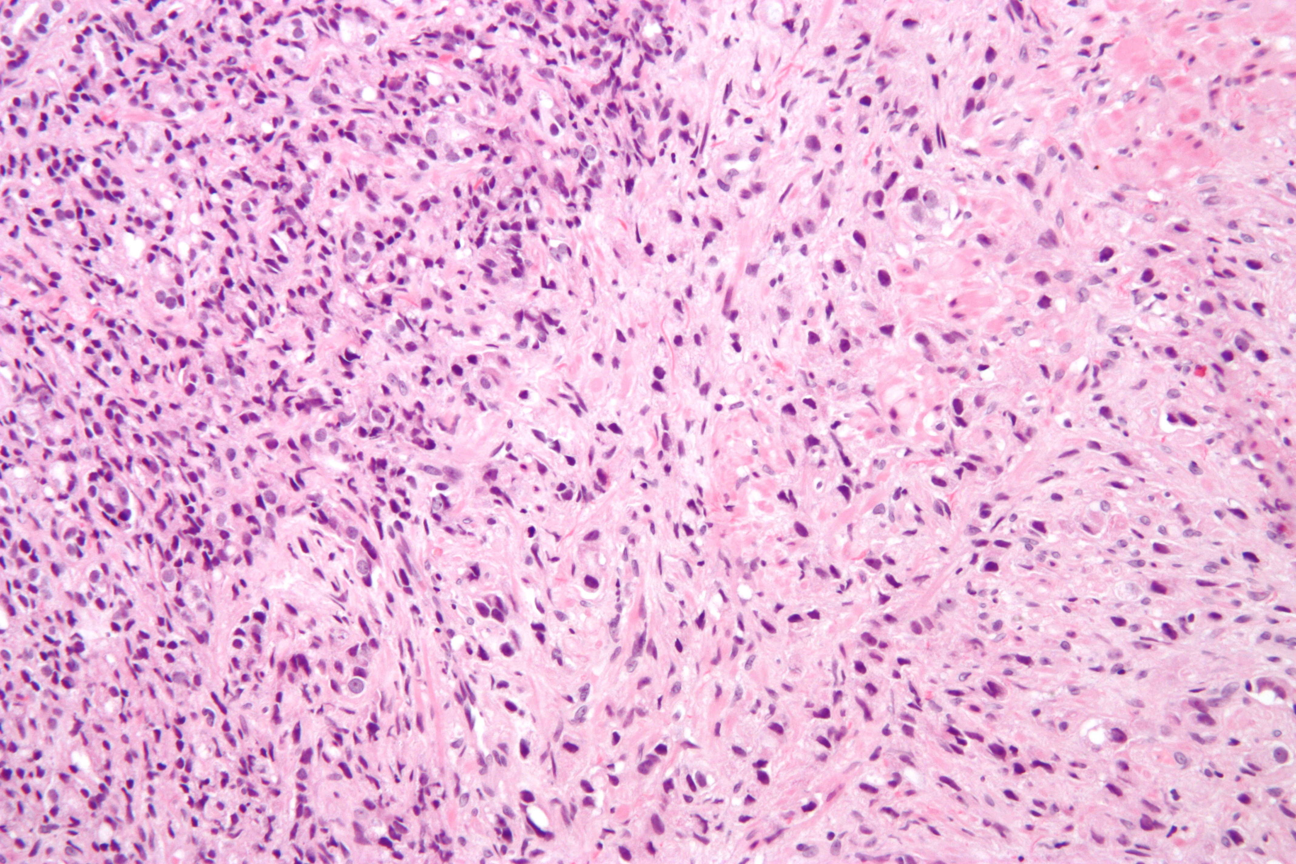 Micrograph showing prostatic acinar adenocarcinoma (the most common form of prostate cancer) Gleason pattern 4 (left of image) and Gleason pattern 5 (right of image). H&E stain. Prostate currettings. See also Image:Prostate cancer with Gleason pattern 4 low mag.jpg